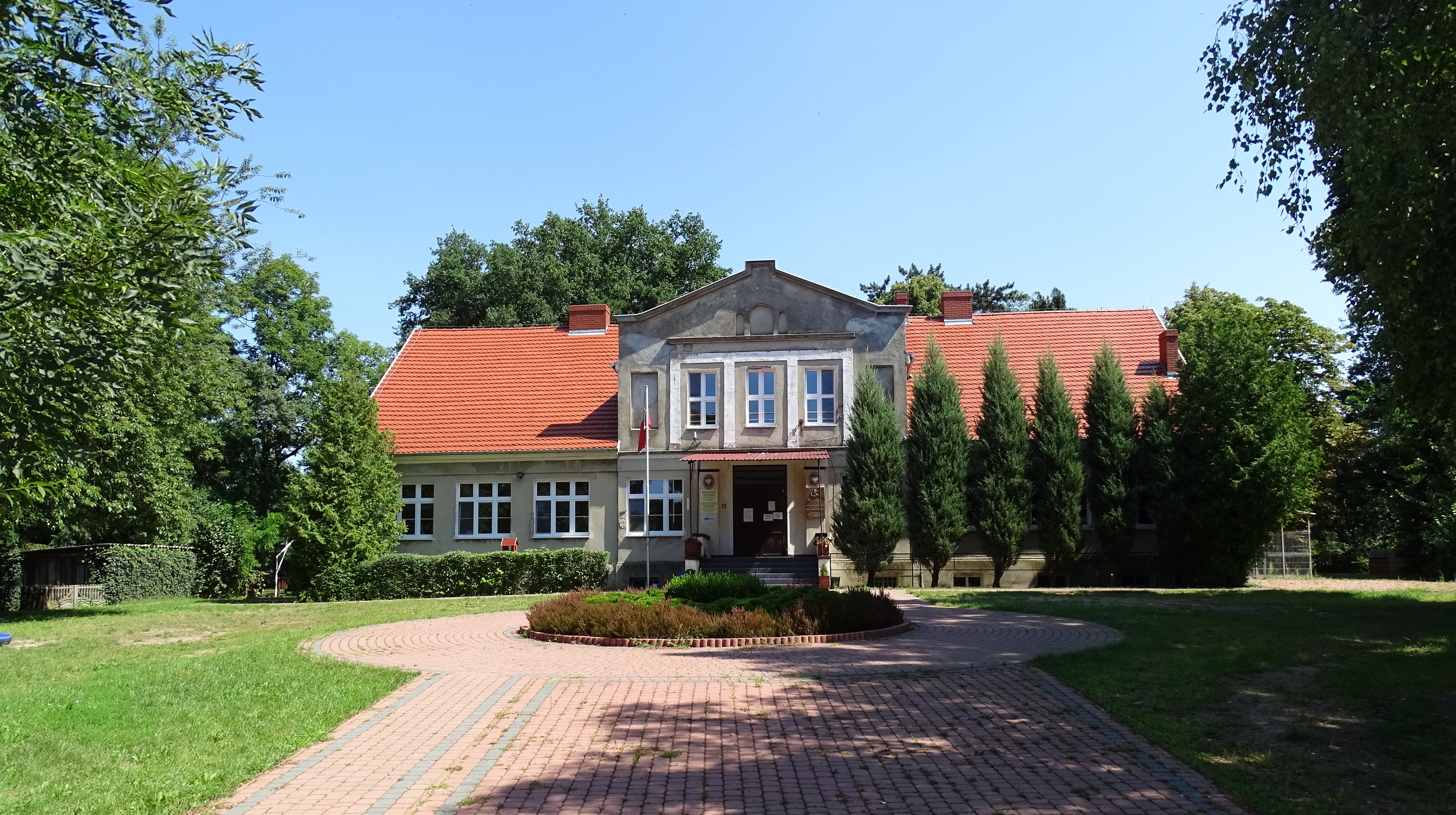 Chrząstowo, Śrem county, Greater Poland. The manor from the mid of the 19th century. Currently used as a school.